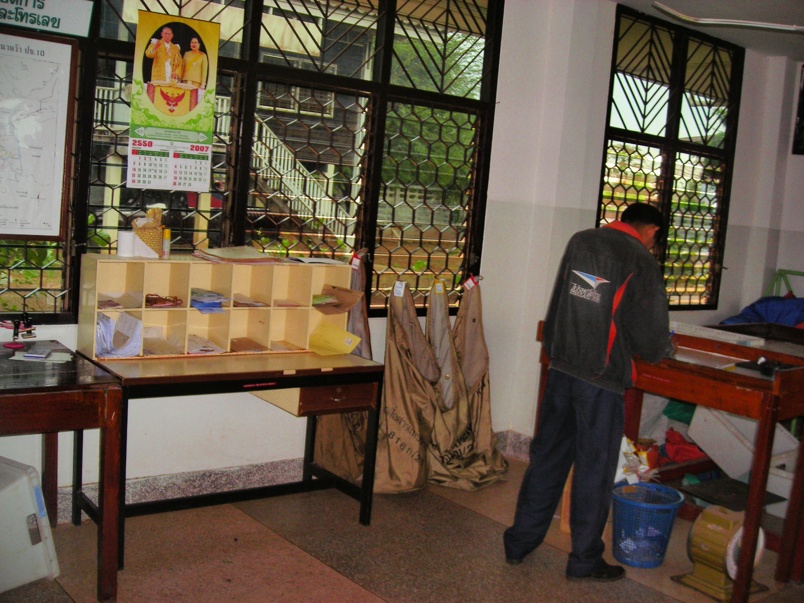 Na Wa Post Office, Thailand — distribution of mail.